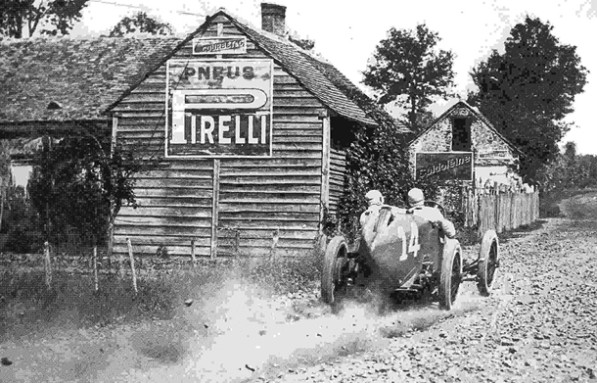 Louis Wagner and Ballot 3L at French GP on 15 July 1921